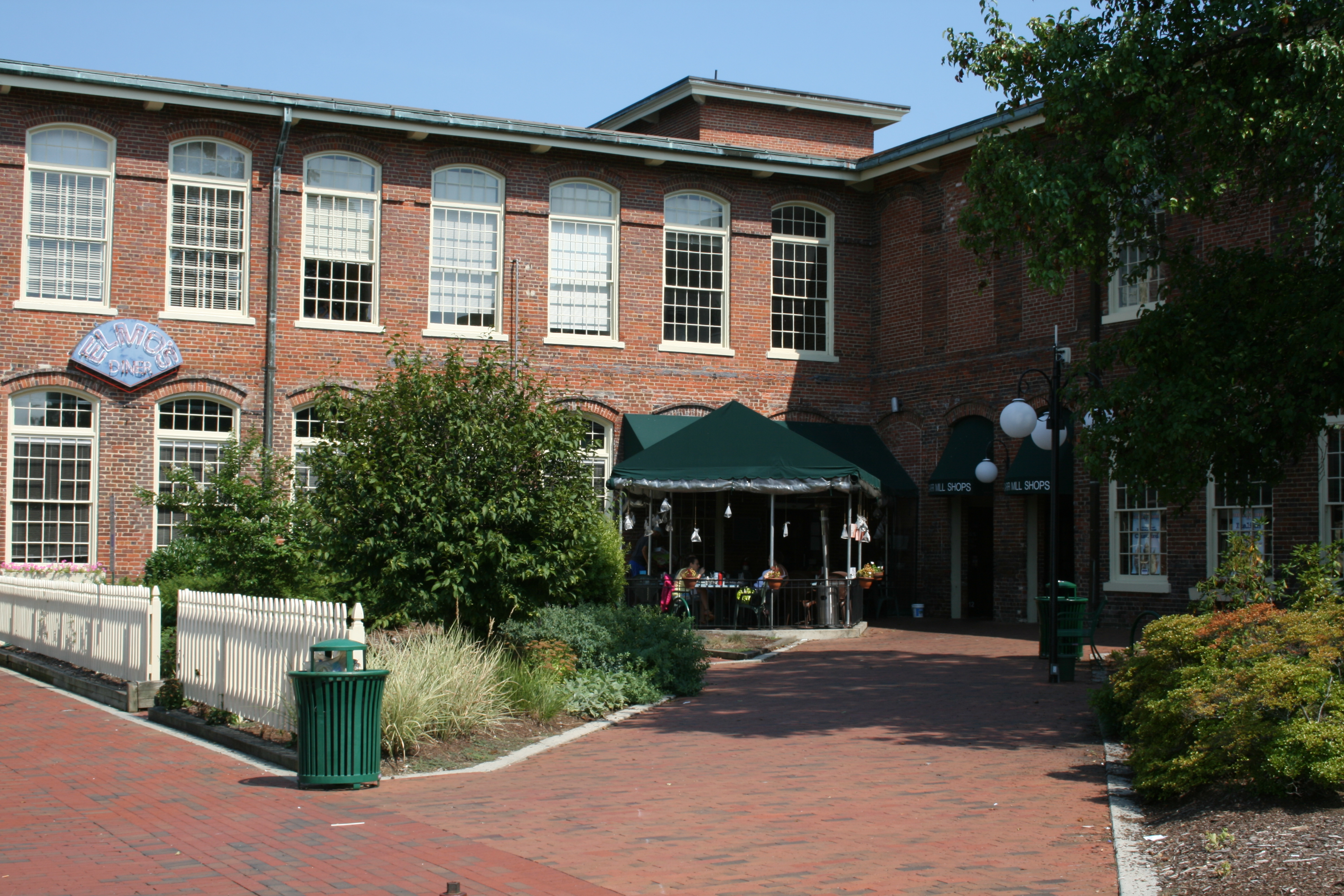 Elmo's Diner in Carrboro, North Carolina.